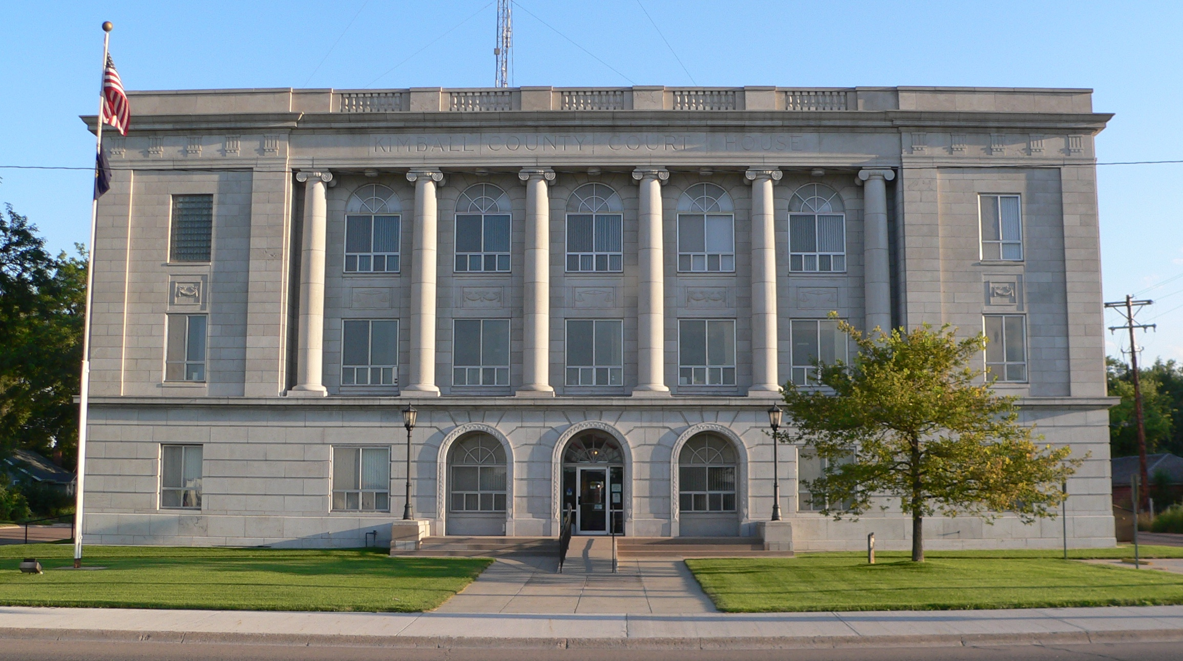 Kimball County Courthouse in Kimball, Nebraska; seen from the north. The Classical Revival building was constructed in 1928. It is listed in the National Register of Historic Places.